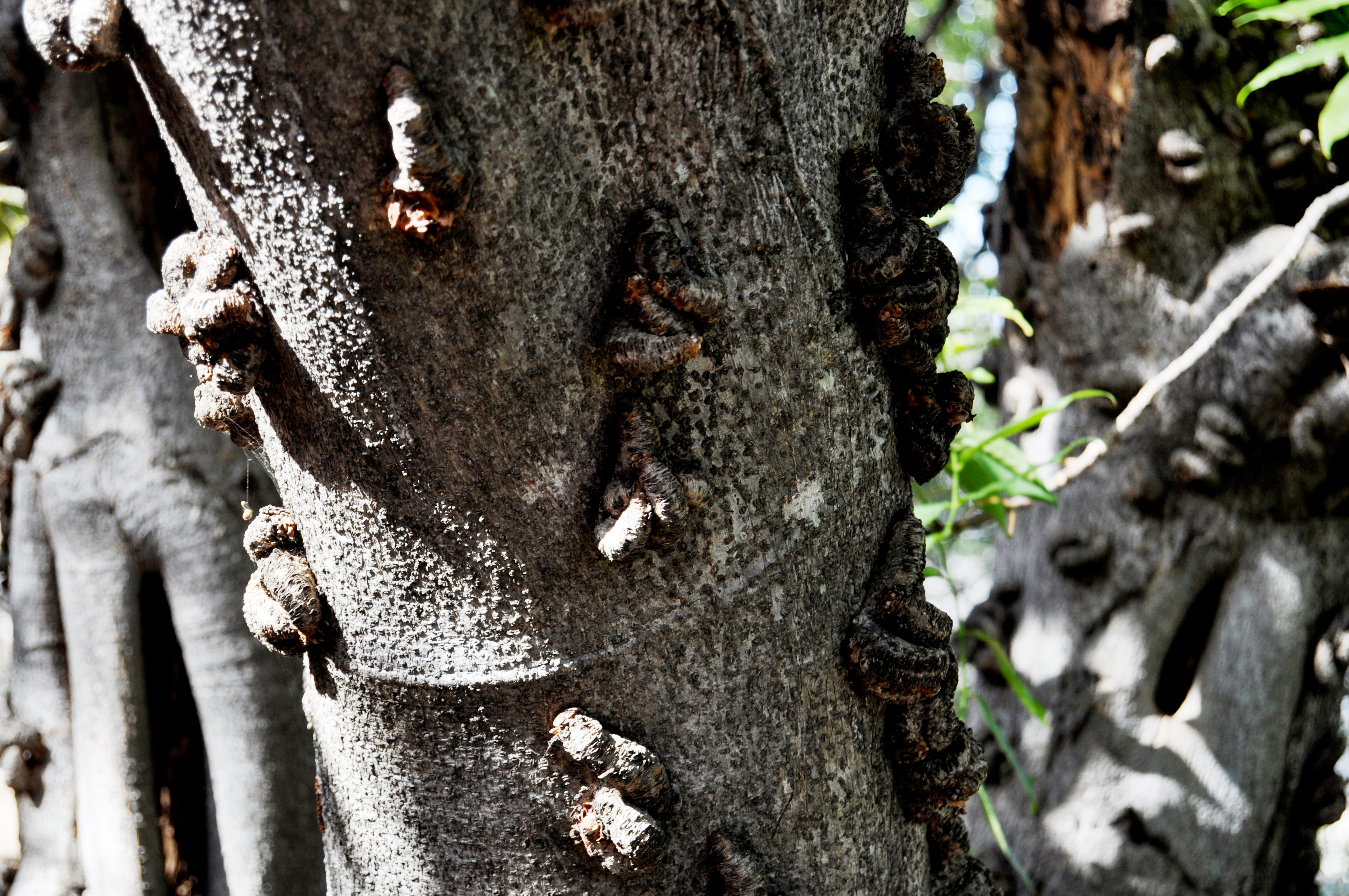 Trunk of a Knobbly fig in Olifants camp, Kruger National Park, South Africa, where a few individuals were planted. Elsewhere in the park, they are found sparsely around Punda Maria and south of the Sabie river.